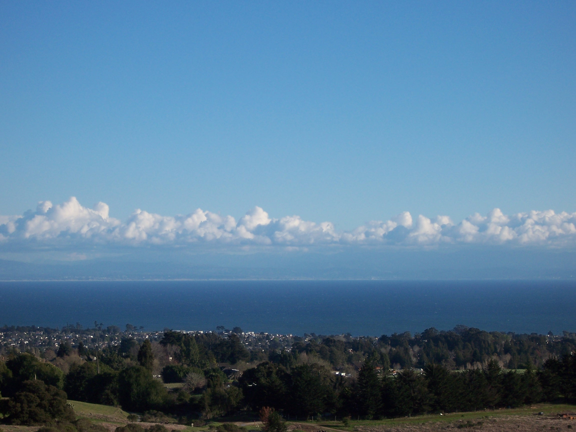 A view of Santa Cruz and the Monterey Bay from the University of California, Santa Cruz (the bike paths downhill from Performing Arts).